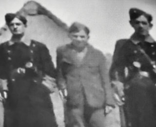 Deutsche Siedler in Zamosc, 1943